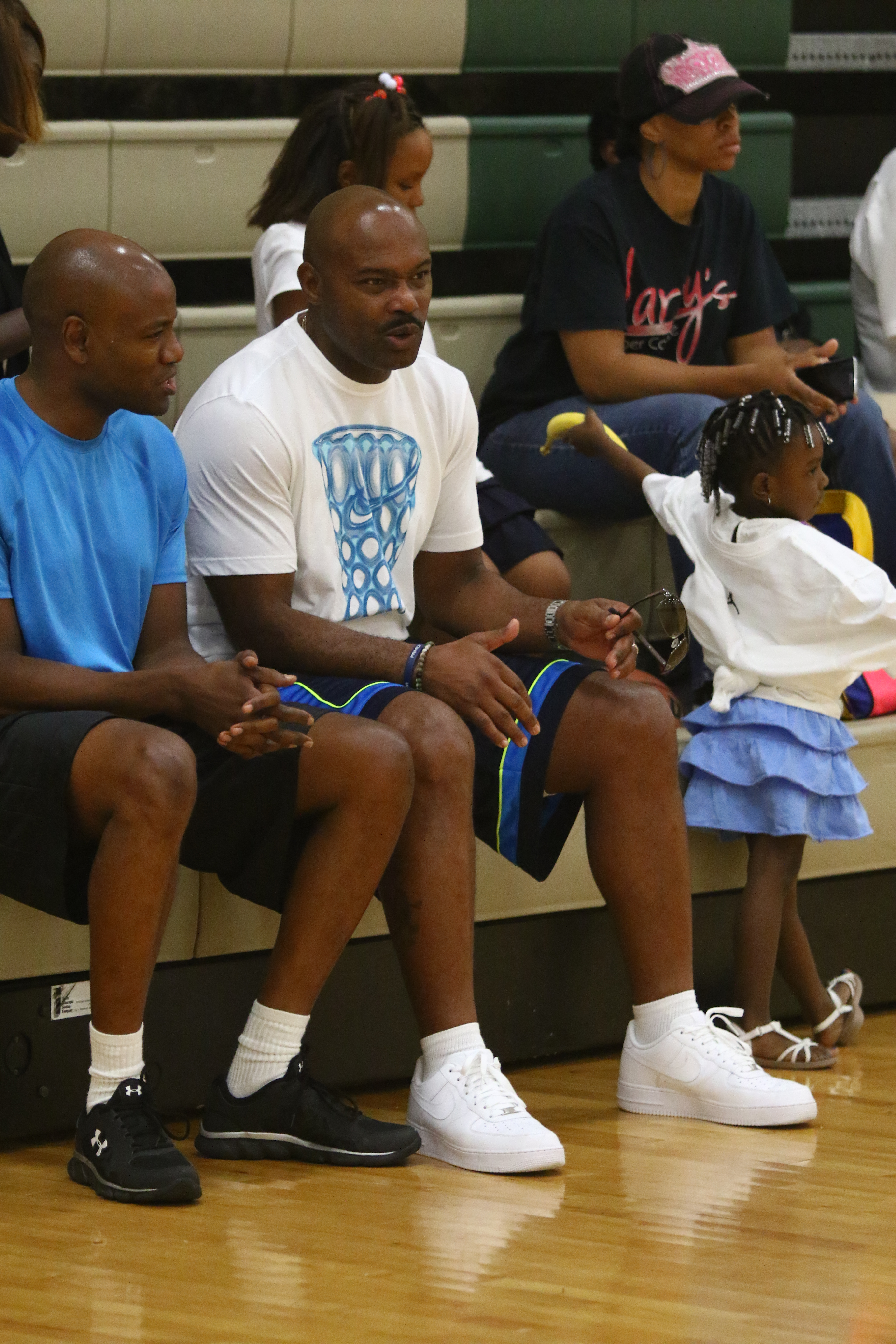 Tim Hardaway at a youth basketball clinic in Chicago at Quest Multisport